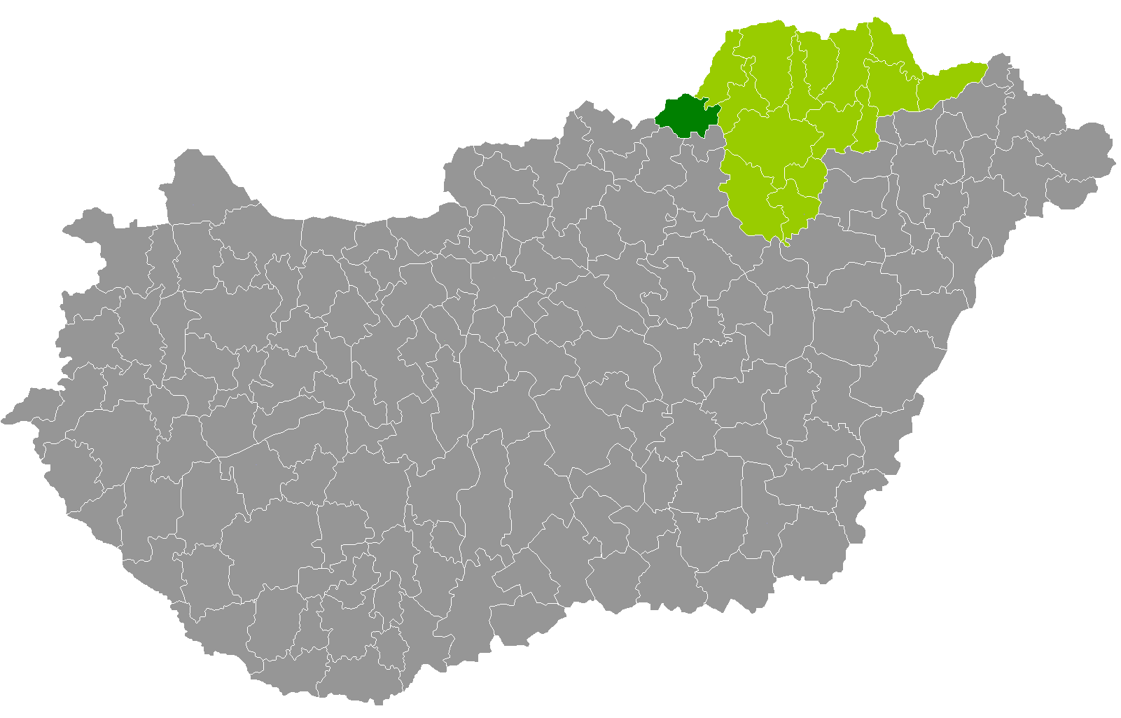 Location of Ózd District, Borsod-Abaúj-Zemplén, Hungary